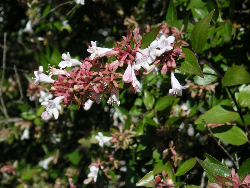 Hybrid of Abelia, in a garden